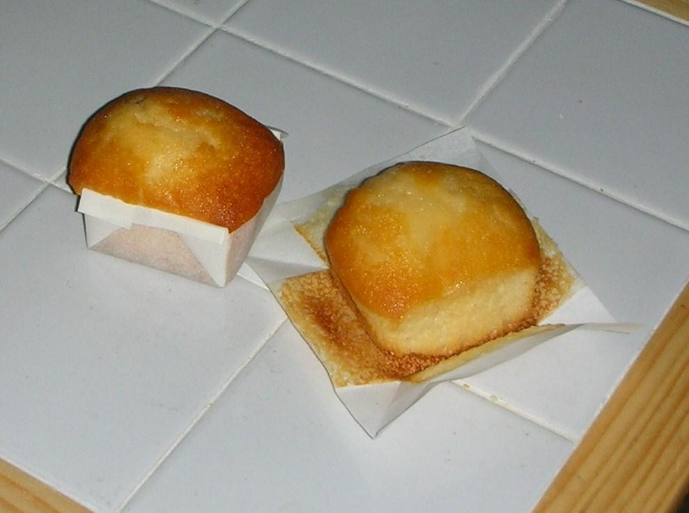 Mantecadas from Tuesta/Valdegovía, Álava Province